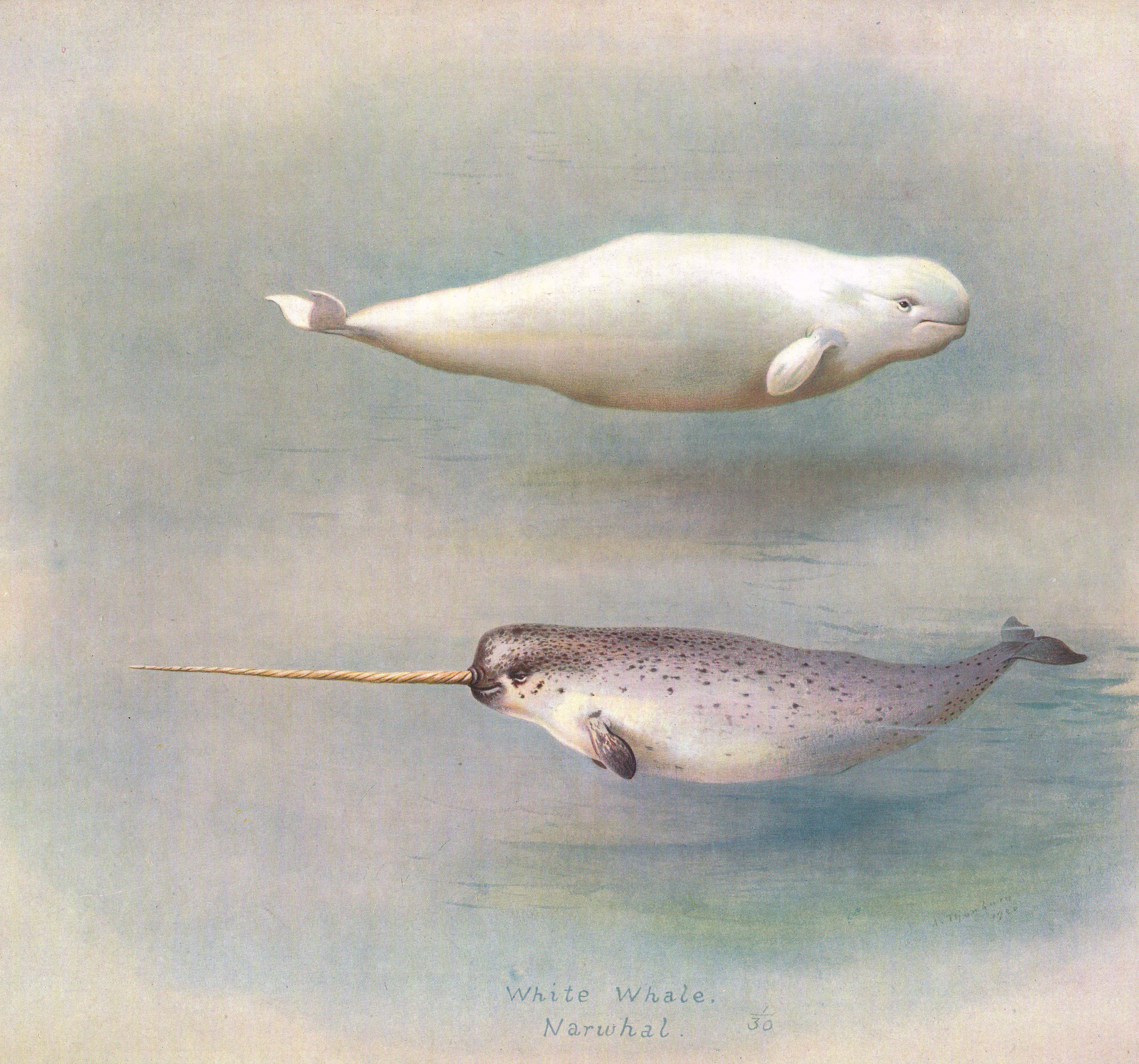 "White Whale, Narwhal" illustration from "British Mammals" by A. Thorburn, 1920